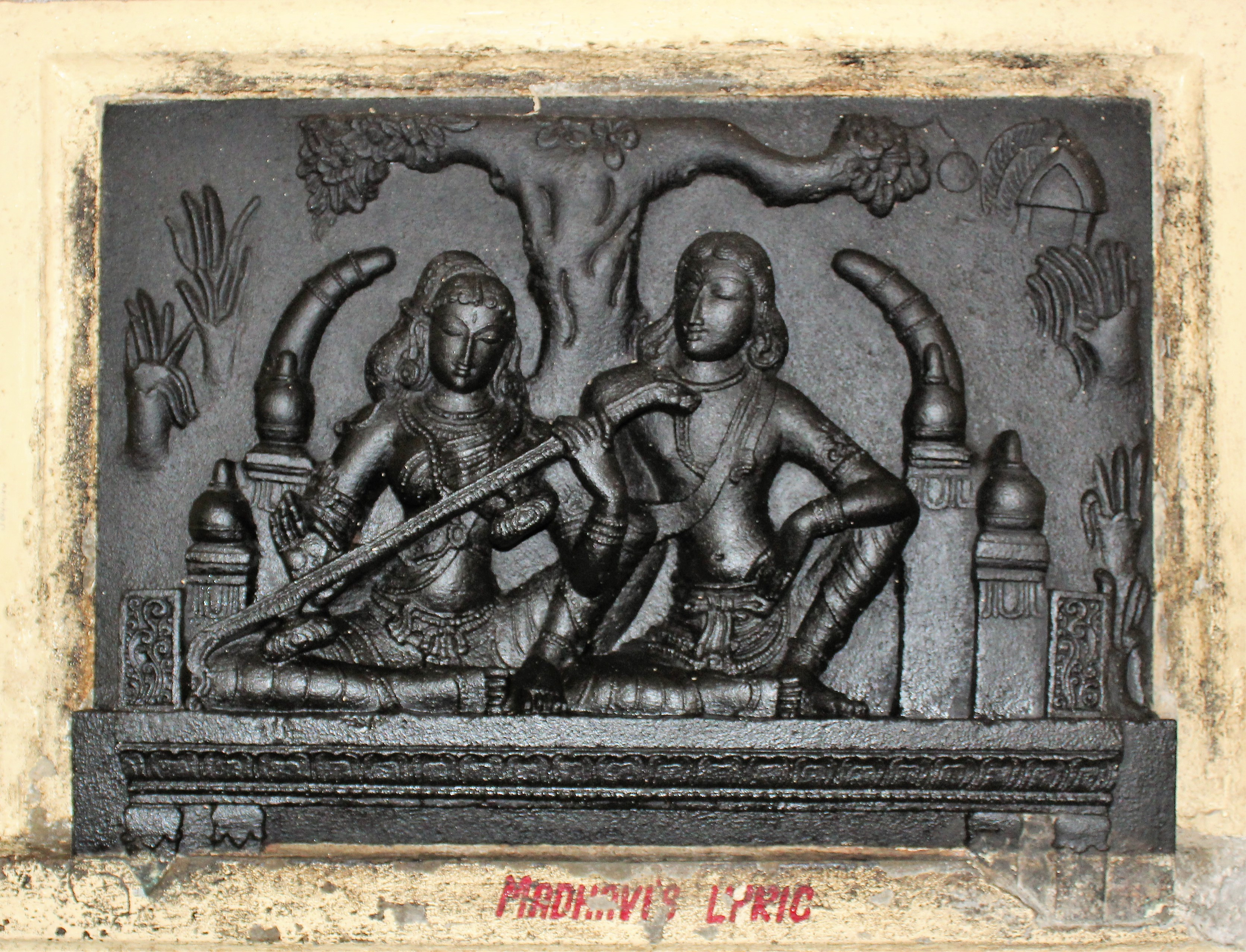 Silappatikaram in sculpture in Poompuhar museum.